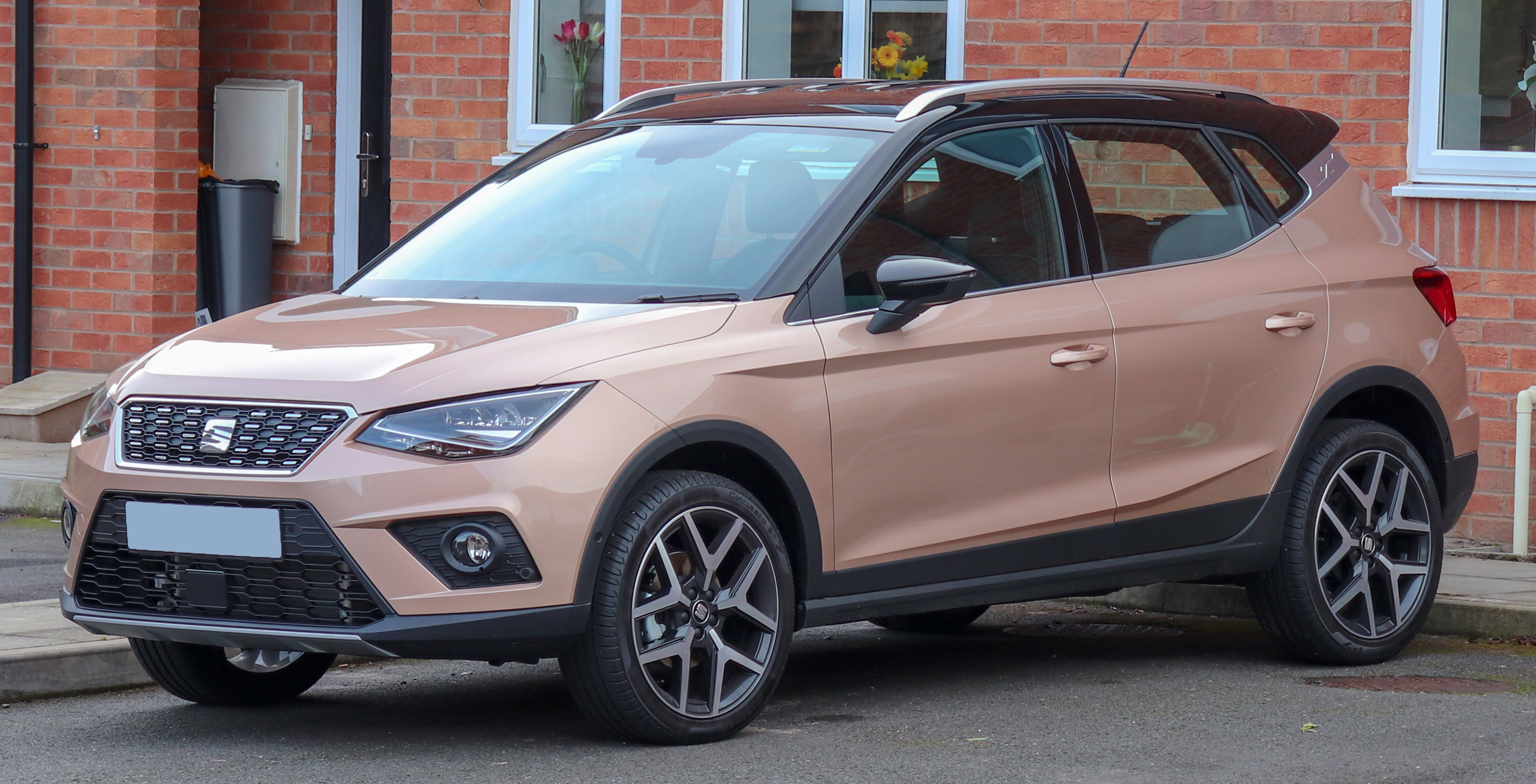 2019 SEAT Arona XCELLENCE Lux 1.6 Taken in Warwick